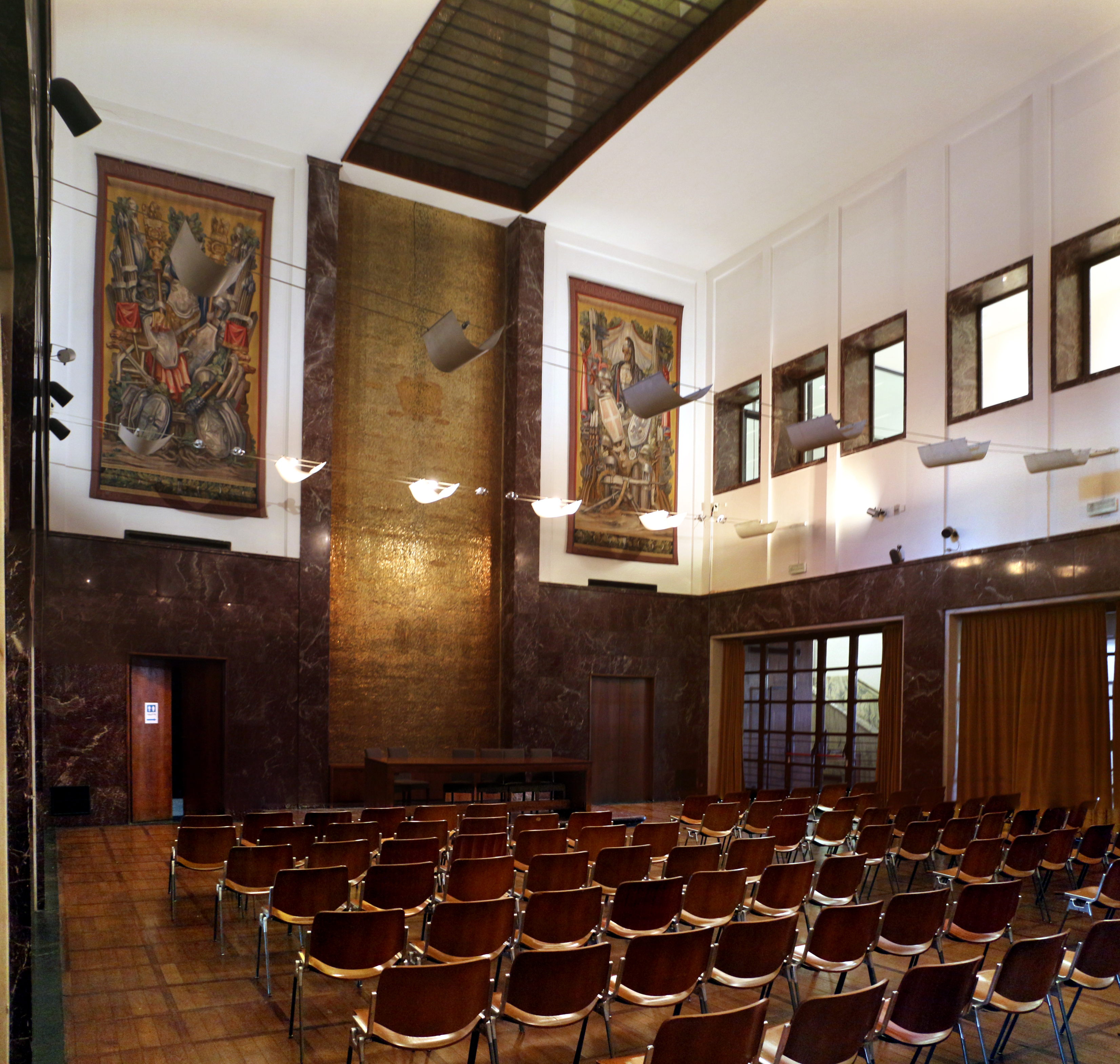 Palazzina Reale di Santa Maria Novella